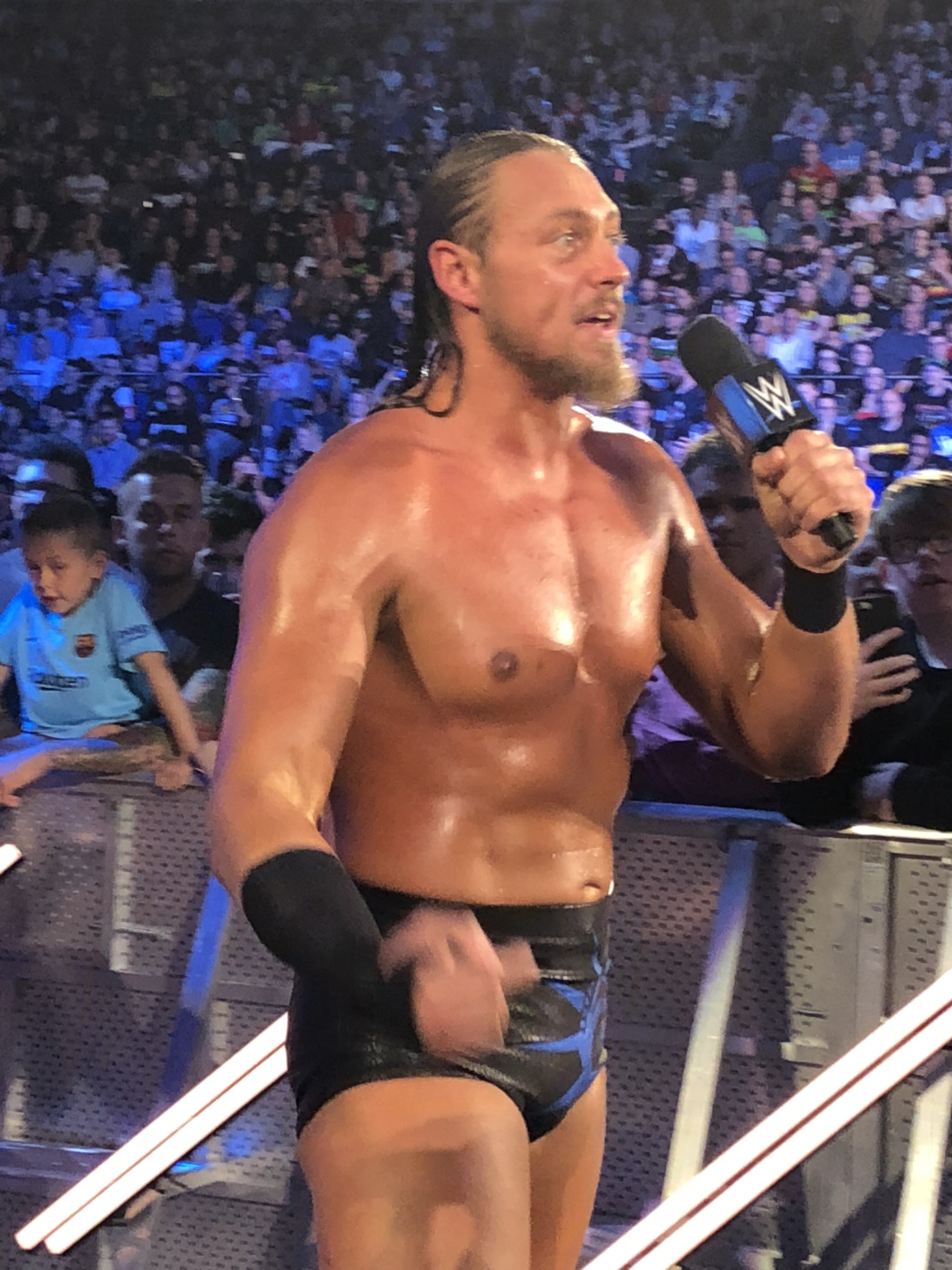 Big Cass making his way to the ring at the WWE Smackdown taping in the O2 Arena, London.